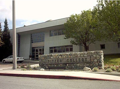 Sign for Pitzer College — a member of the Claremont Colleges, in Claremont, Southern California.